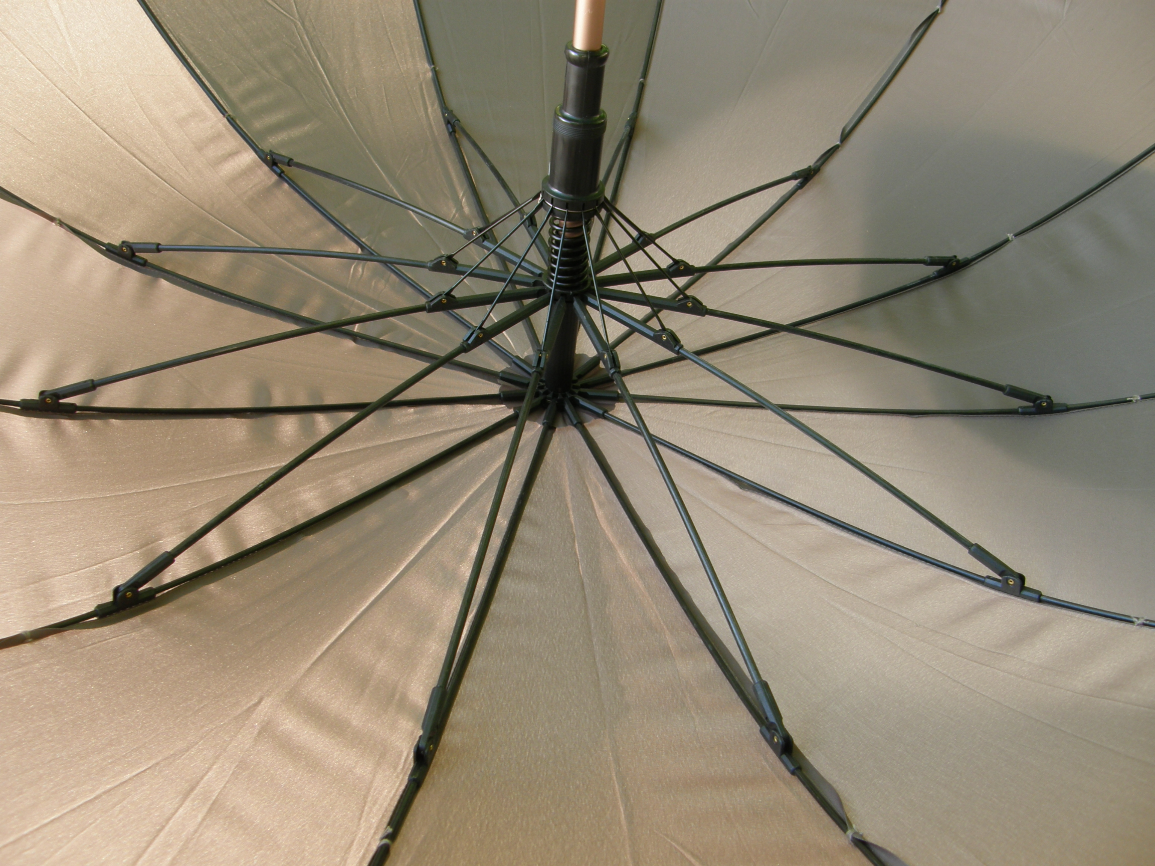 Details